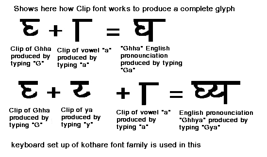 Clip font procedure